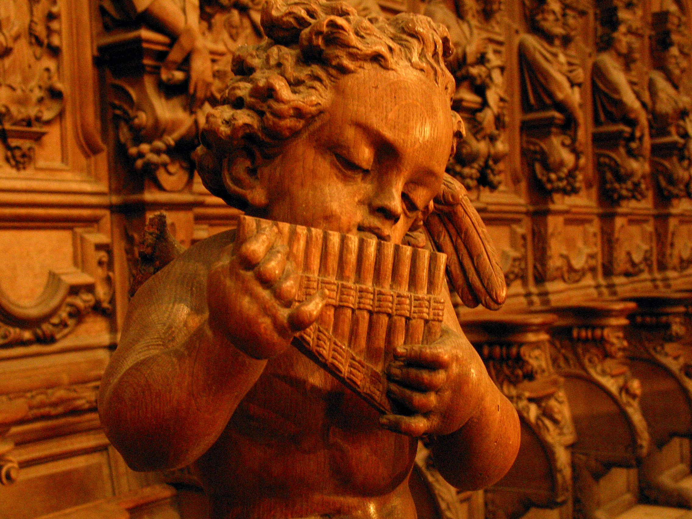 Abbaye de Floreffe — Baroque wood carving in Belgium.